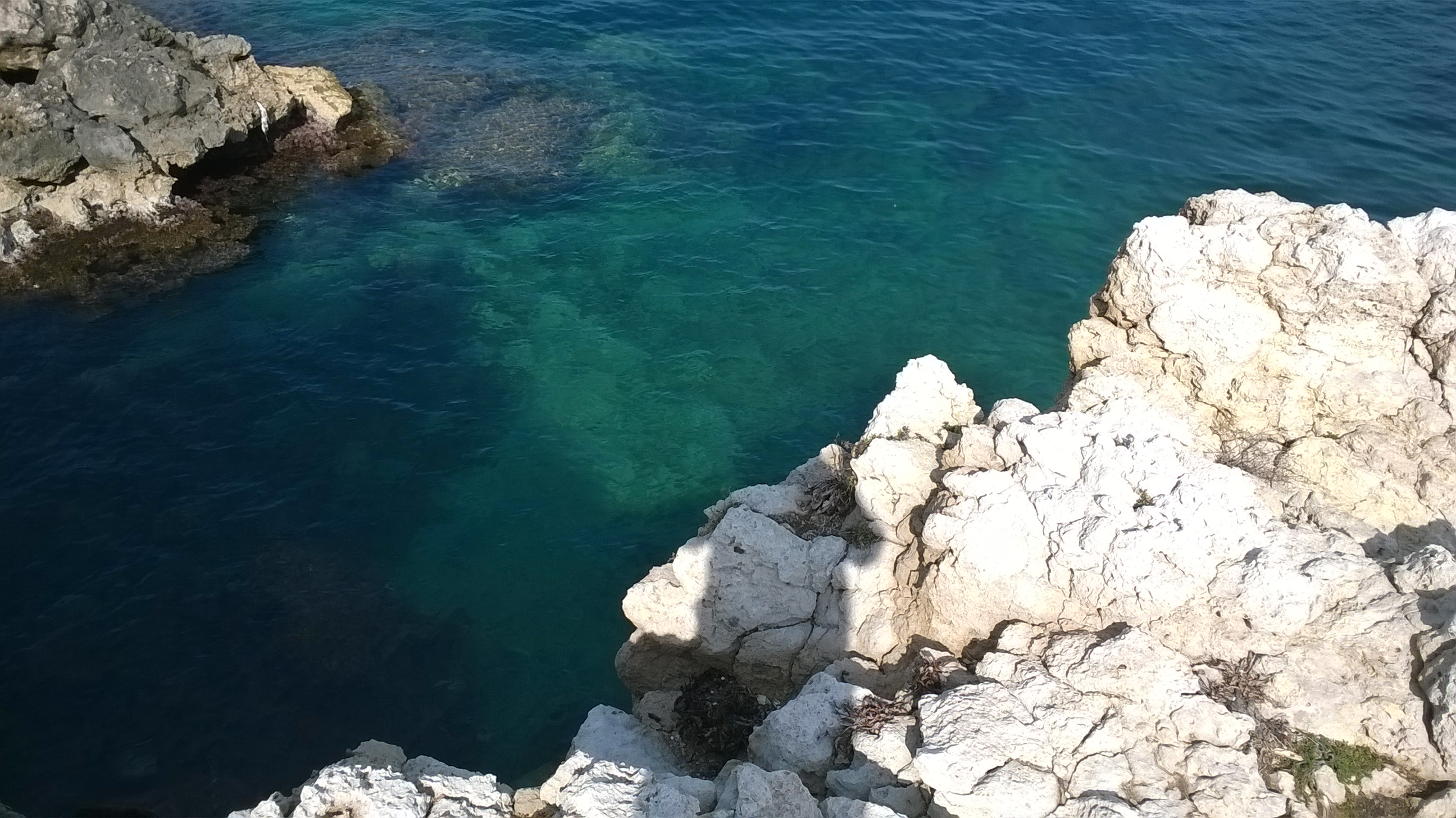 This is a photography of Natura 2000 protected area with ID GR4110005